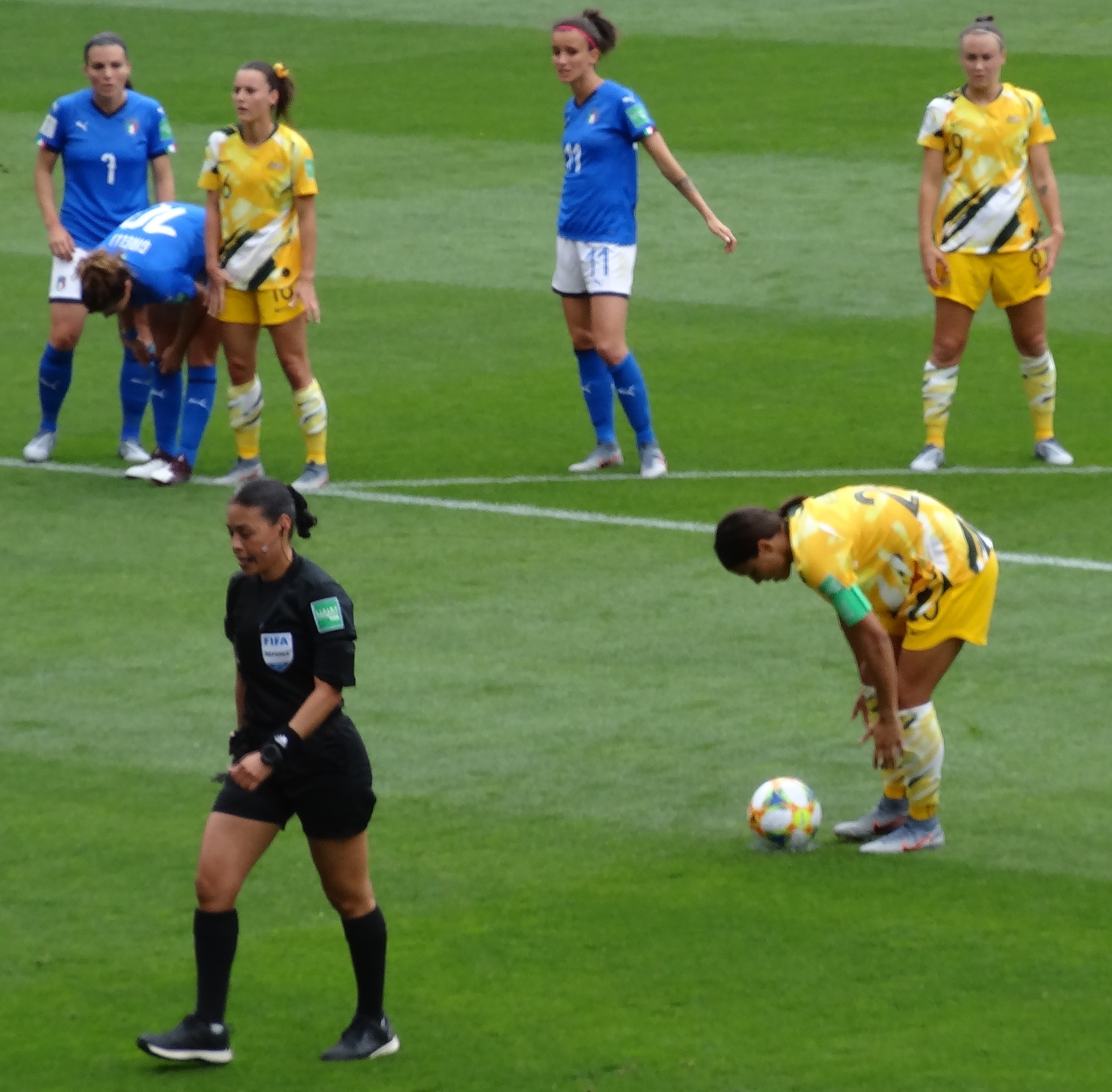 Melissa Borjas (referee)